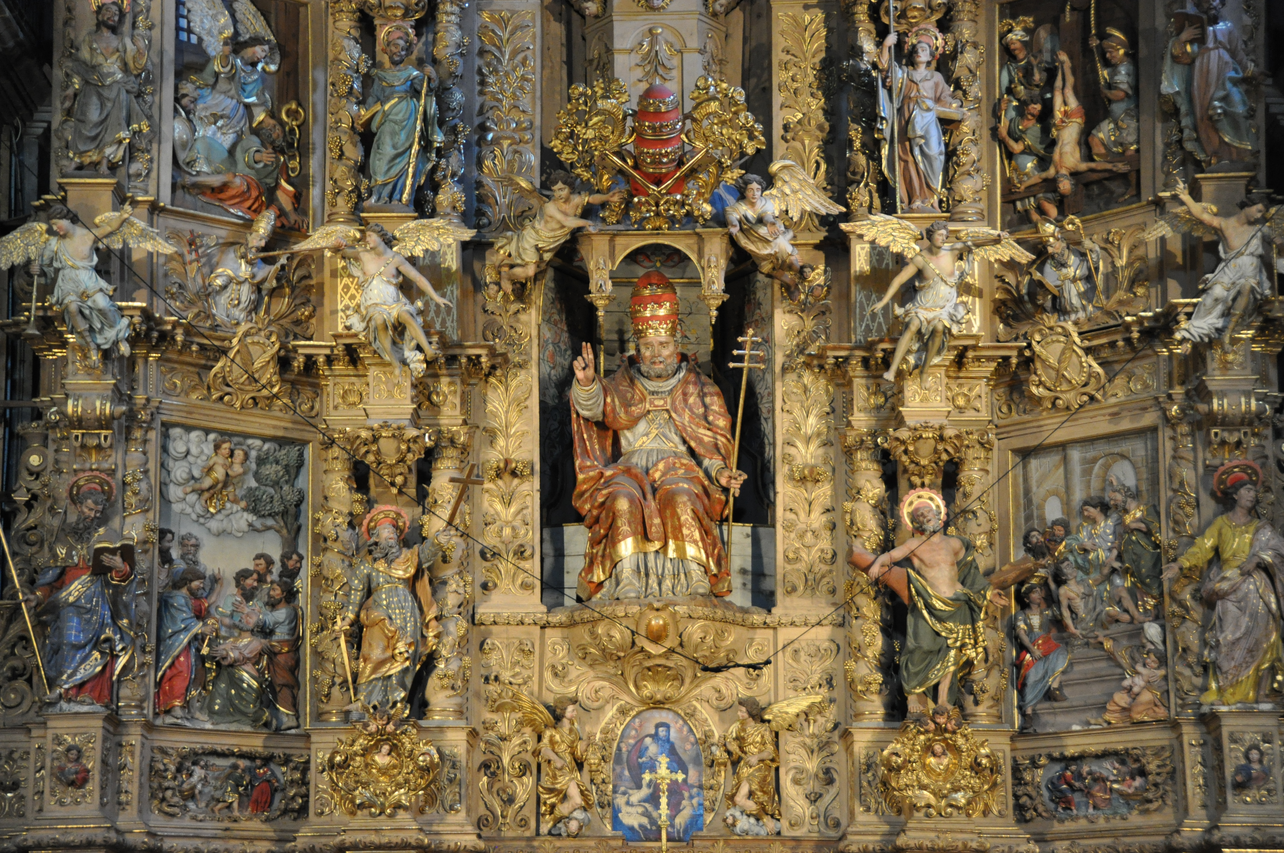 Prada. Parish Church. Altarpiece dedicated to St. Peter. 1697-1699. Josep Sunyer, sculptor